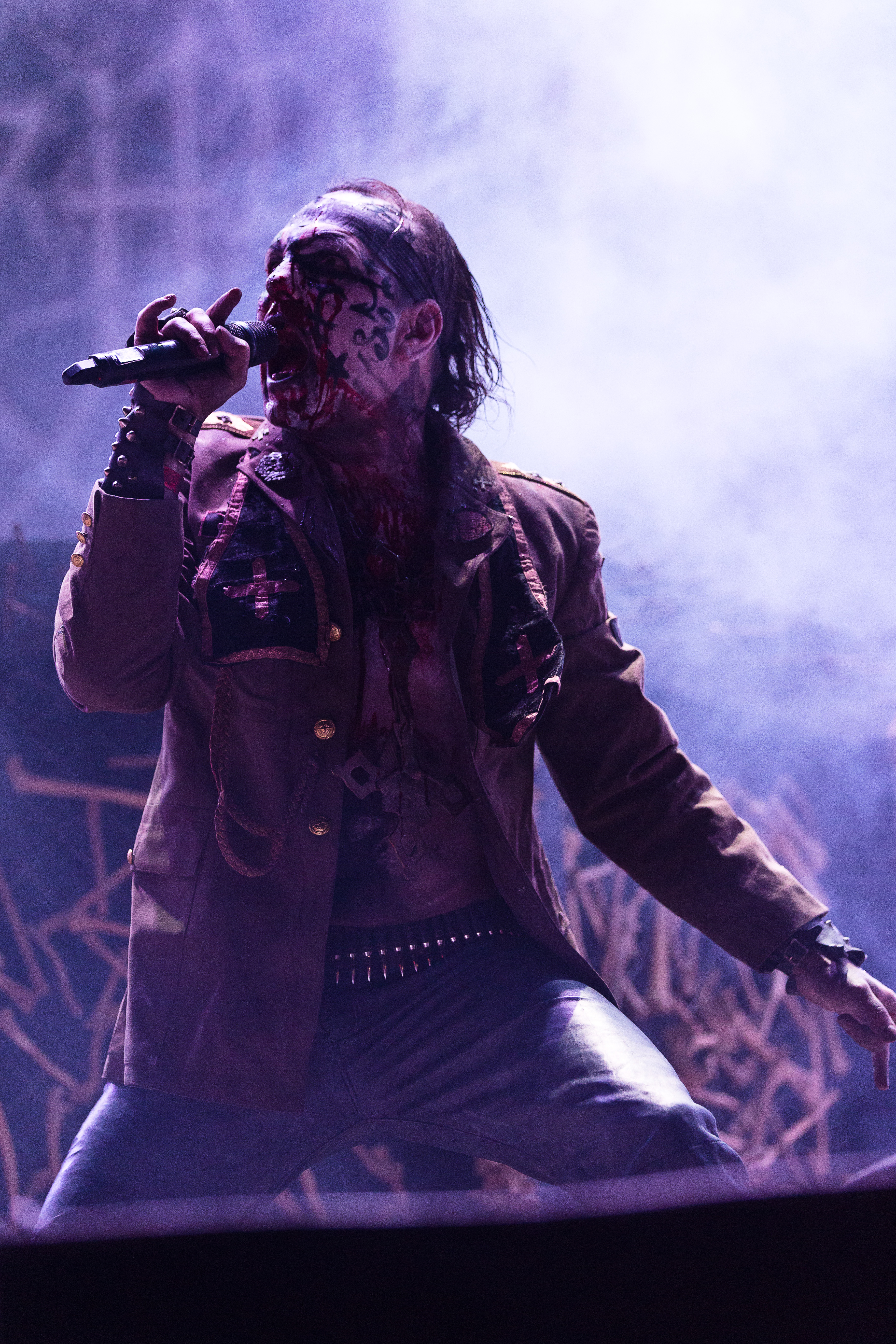 The Norwegian extreme metal band Mayhem at the Party.San Open Air 2015 in Obermehler-Schlotheim/Germany.